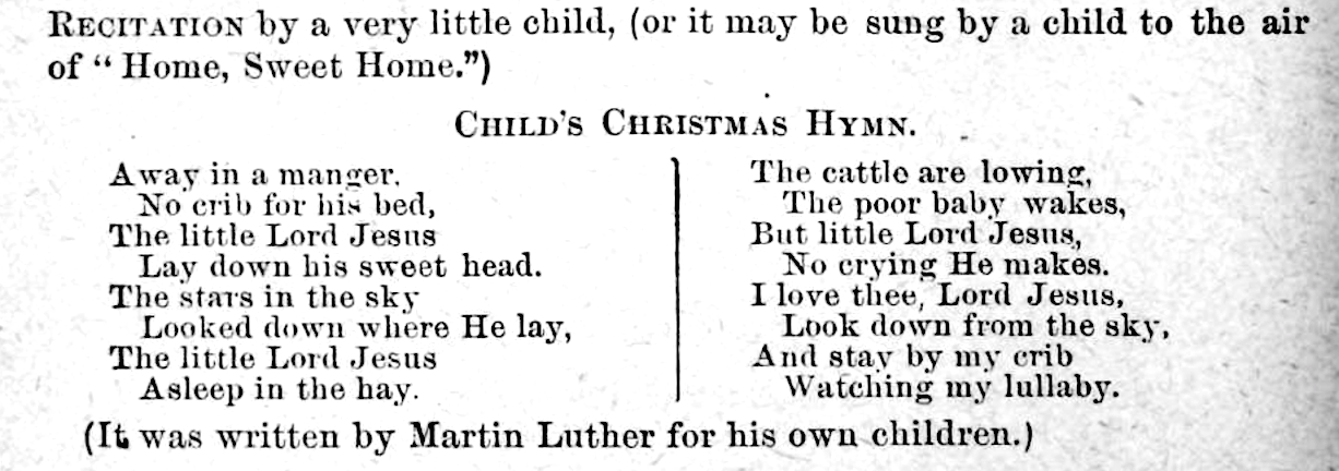 Early publication of "Away in a Manger" from Little Pilgrim Songs (1883).